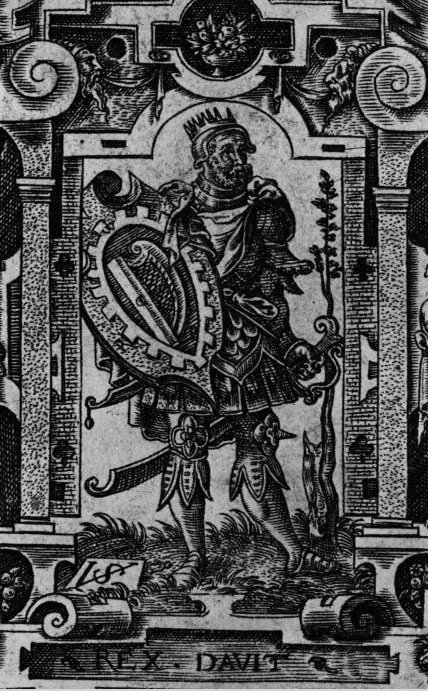 18th century depiction of David I, King of Scots